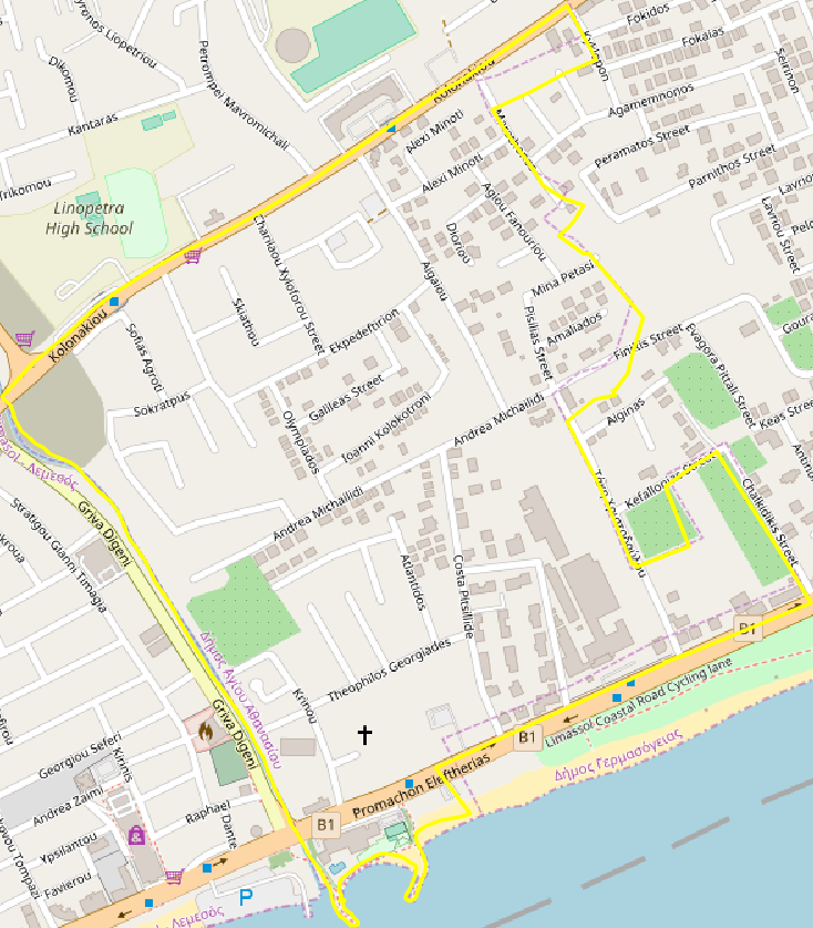 Map of Ayios Georgios Fragkoudi.